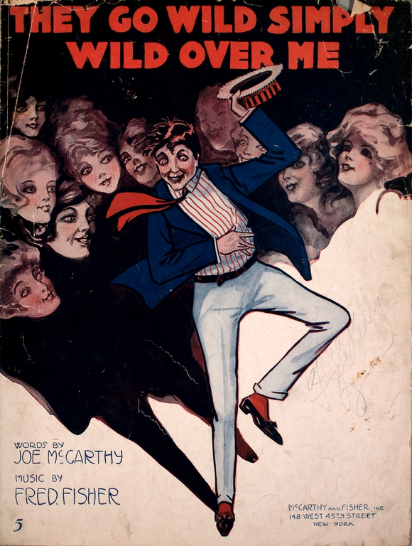 "They Go Wild, Simply Wild, Over Me". 1917 sheet music cover.